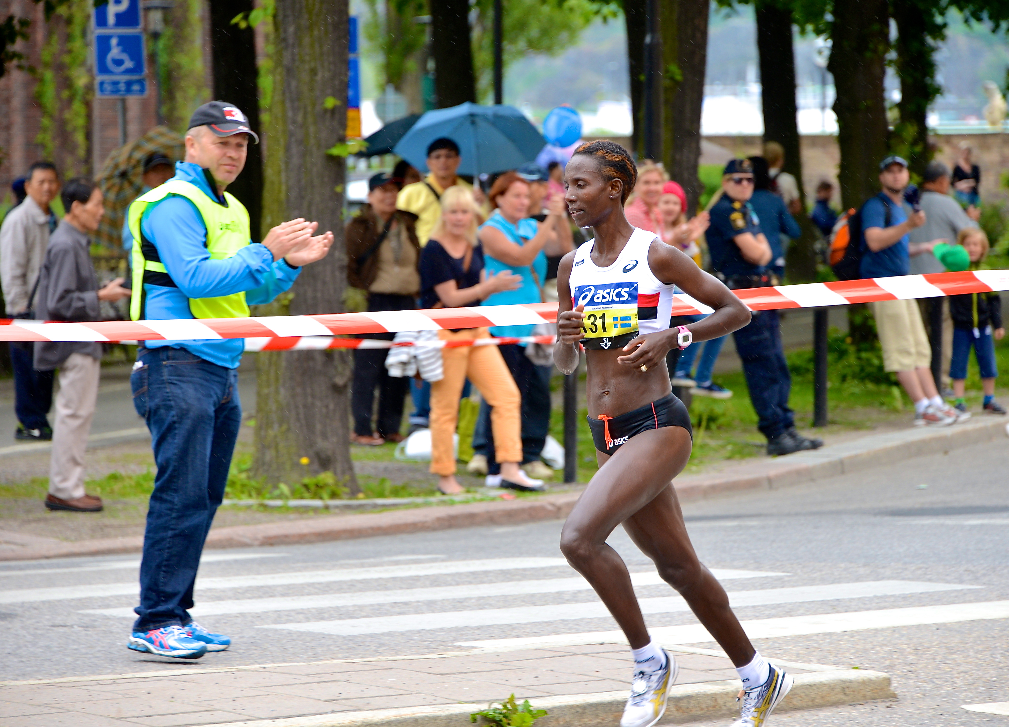 Isabella Andersson in Stockholm marathon June 1, 2013.